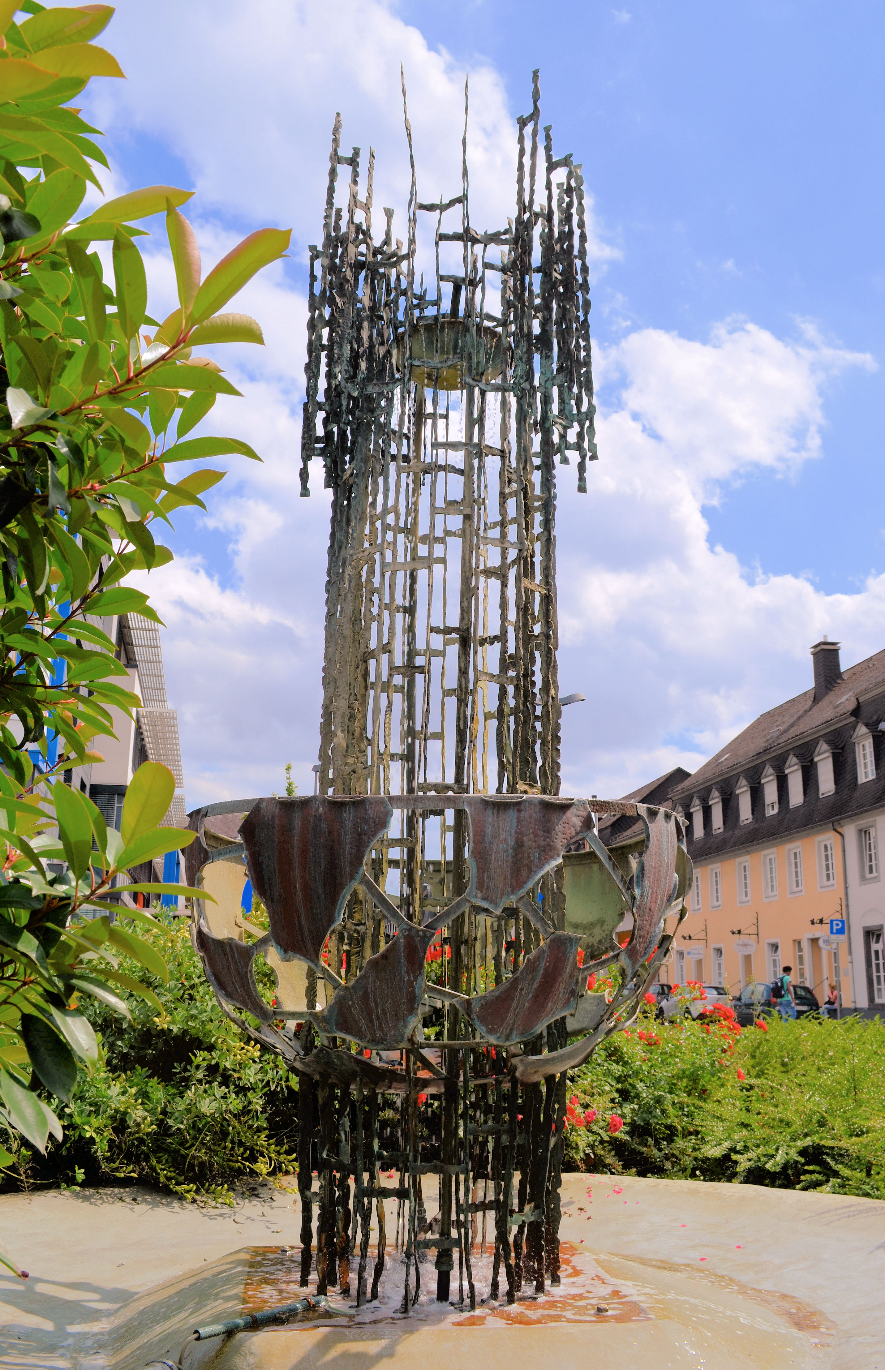 Klaus Rudolf Werhand-Brunnen der Stadt Neuwied (von 1979)